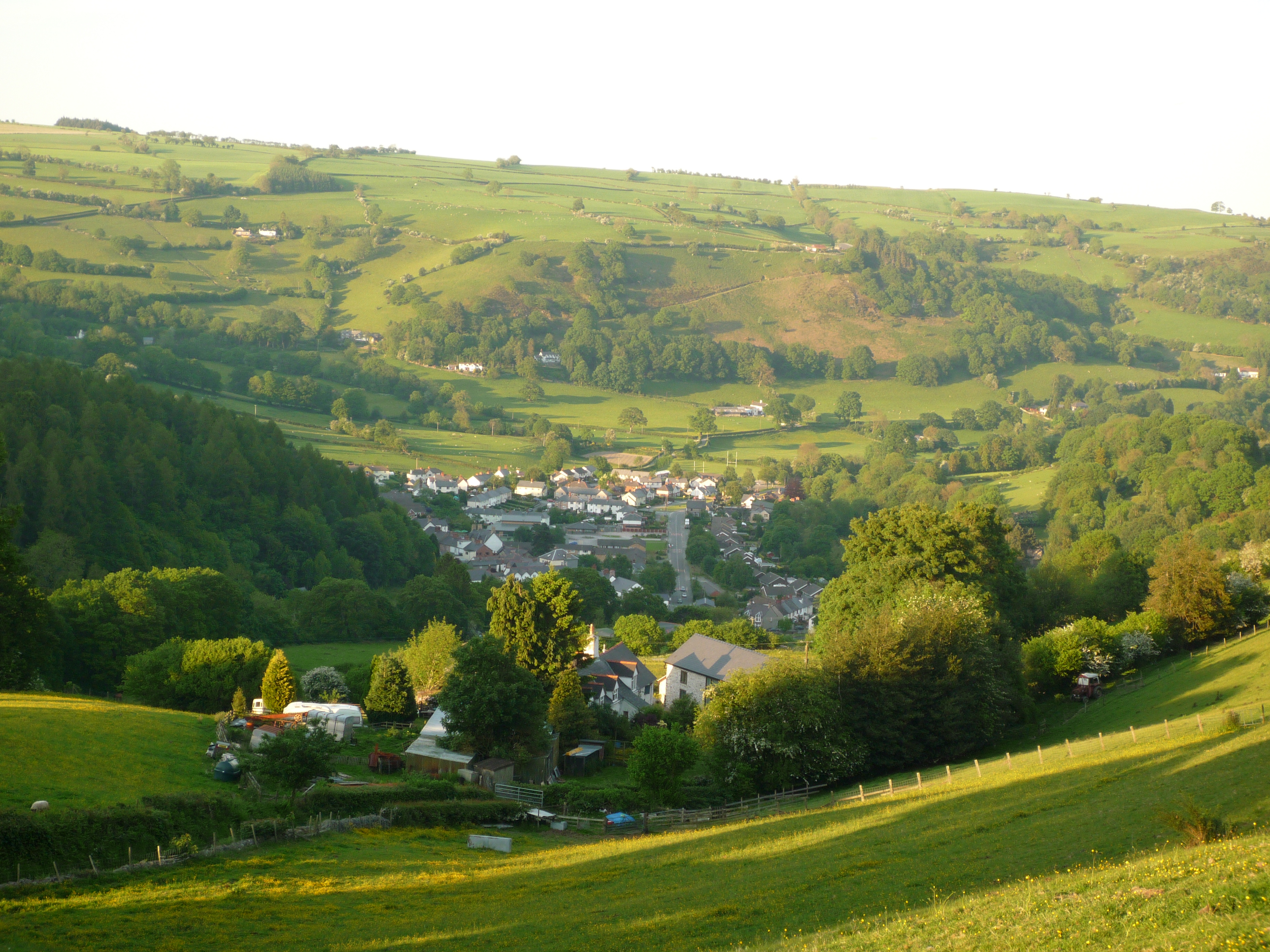 Looking towards Glyn Ceiriog village